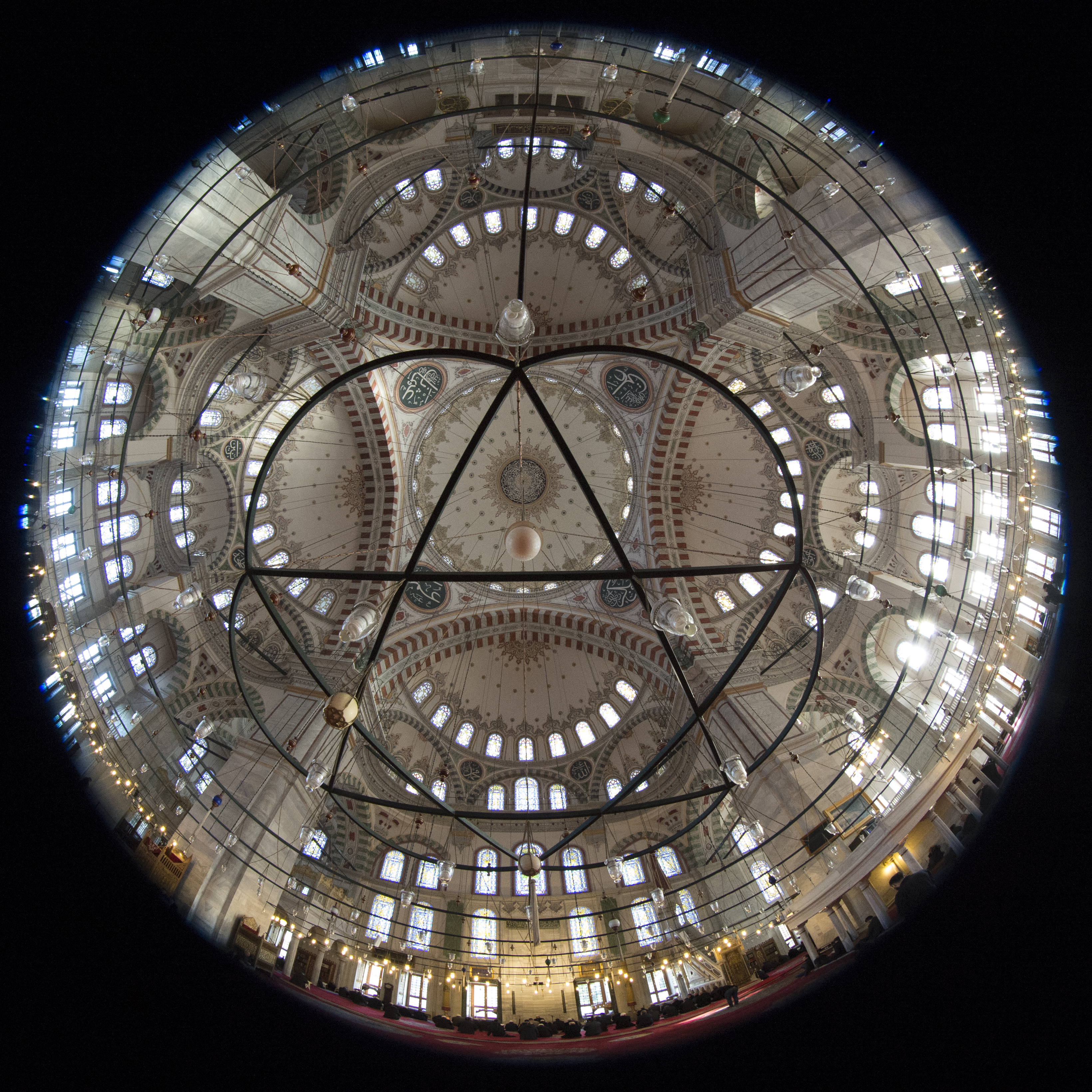 In 2018 with a fish eye I could not resist this repetitive play of the lamps and domes of the mosque. It was taken during a service. When opening from the thumb nail the file may be large, exceptionally I made the full size public.